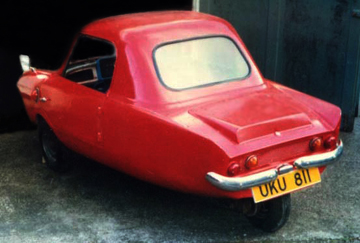 Rear view of 1959 Meadows Frisky Family Three Mk 2